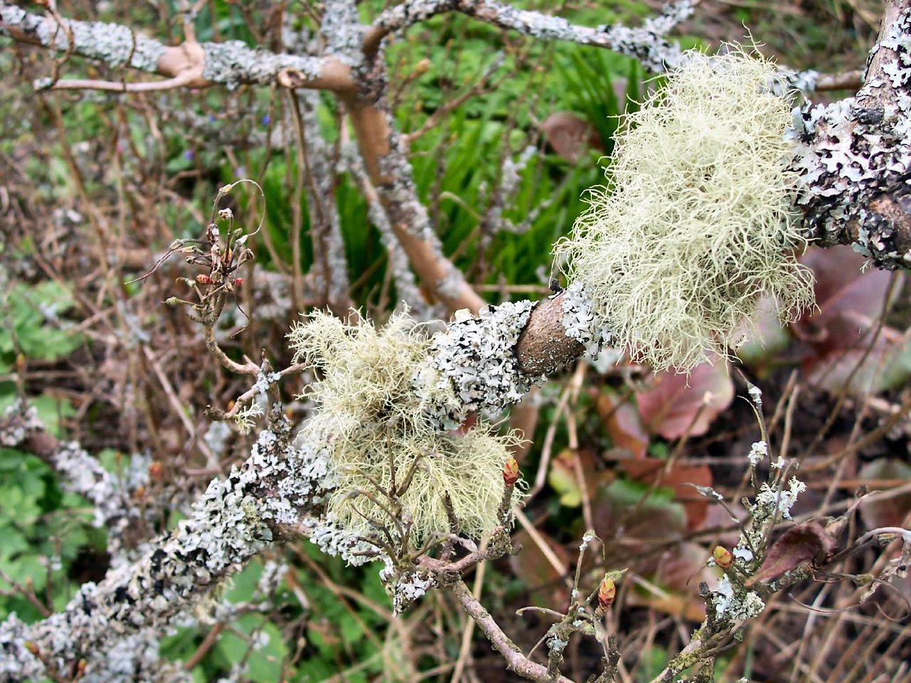 Two types of lichen growing on an old azalea. Identification is appreciated.